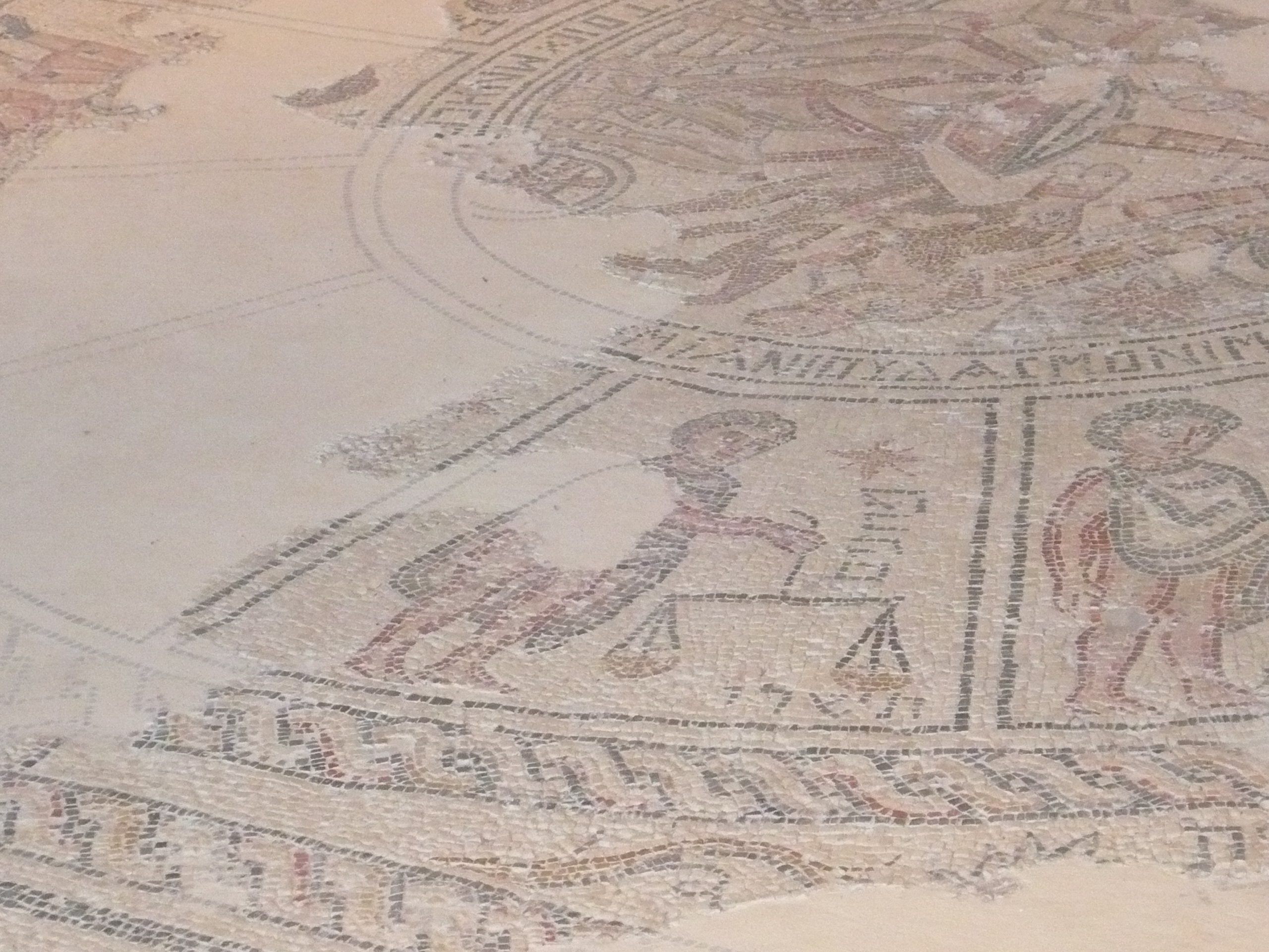 astrological sign libra month of tishrey detail from zodiac mosaic in the ancient synagogue in tzippori מזל מאזניים, חודש תשרי, פרט מפסיפס גלגל המזלות בבית הכנסת העתיק בציפורי